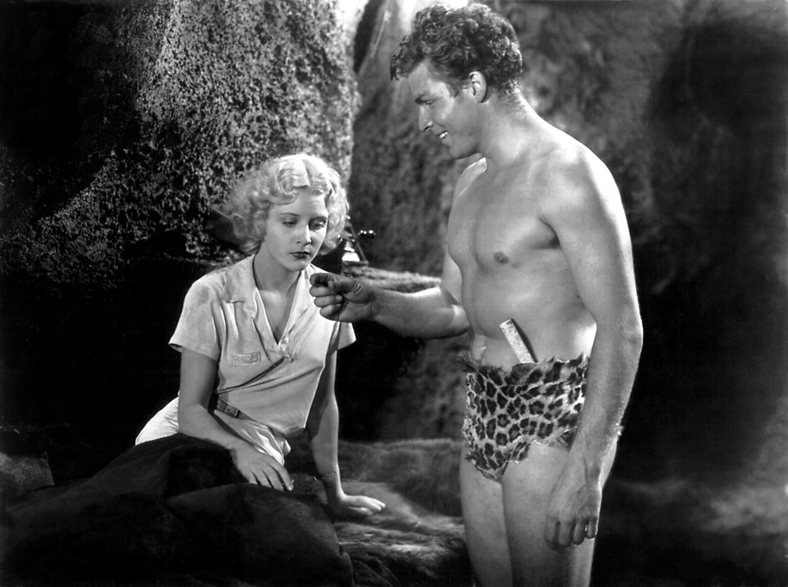 Jacqueline Wells (aka Julie Bishop) & Buster Crabbe in Tarzan the Fearless - publicity still